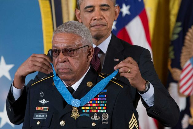 Sgt. 1st Class (retired) Melvin Morris is awarded the Medal of Honor by President Barack Obama during a ceremony in the East Room of the White House in Washington, March 18. President Obama awarded 24 Army veterans the Medal of Honor for conspicuous gallantry in recognition of their valor during major combat operations in World War II, the Korean War and the Vietnam War. (Photo by Evan Vucci, AP)